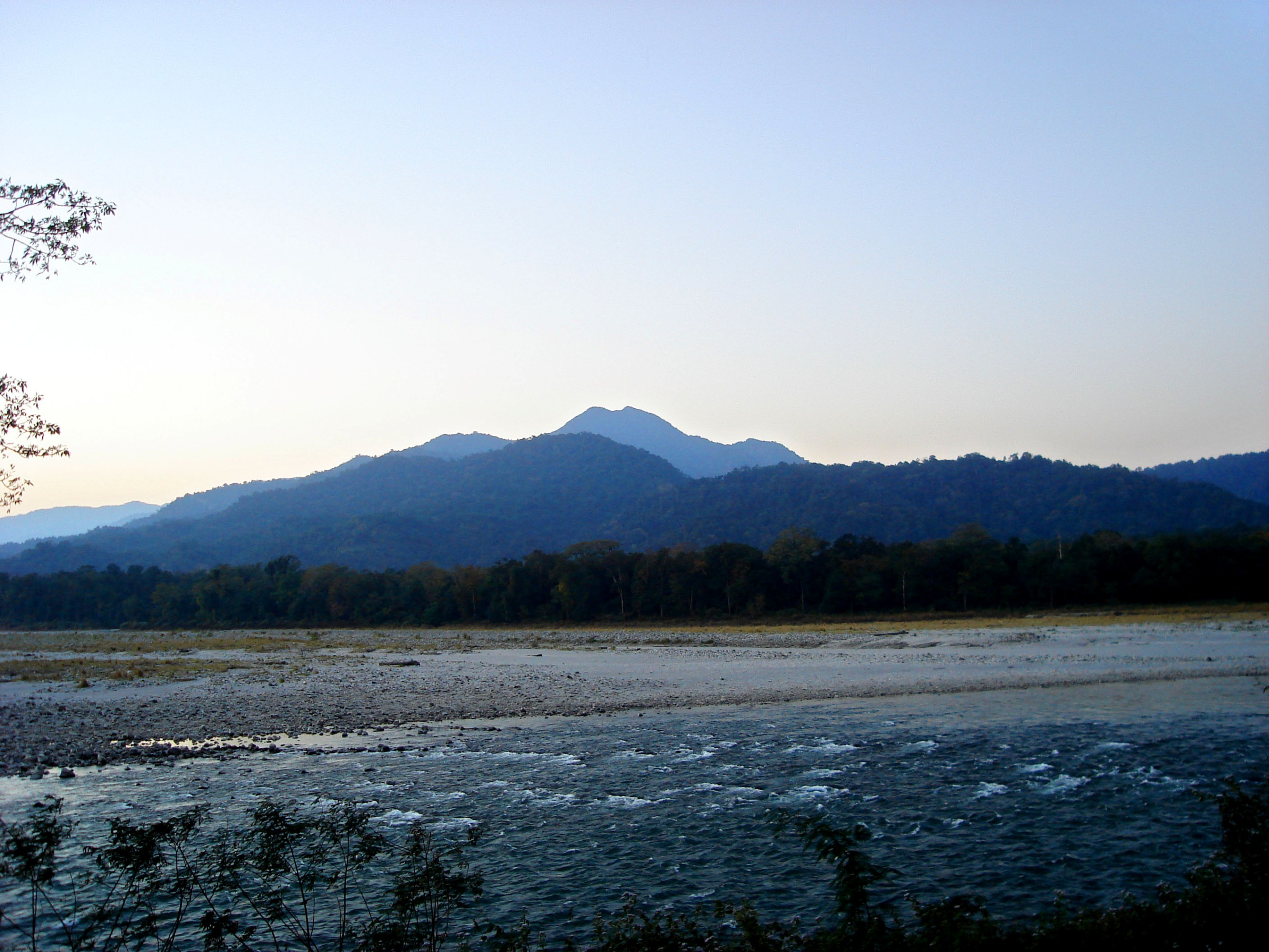 A hill of Assam.